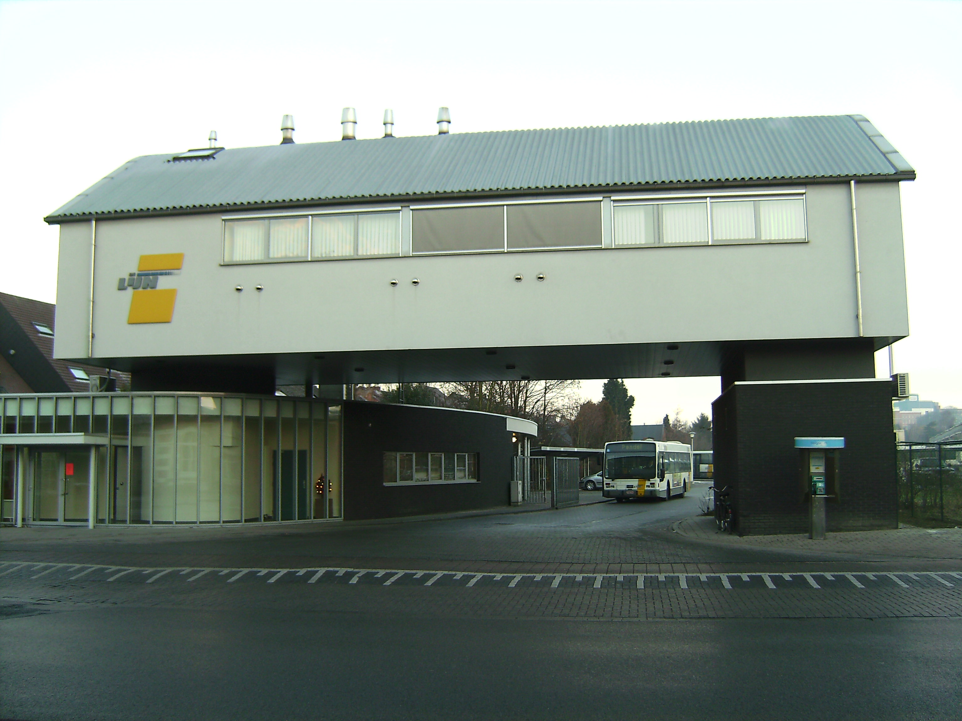 Entrance of the De Lijn bus depot in Turnhout, Belgium.